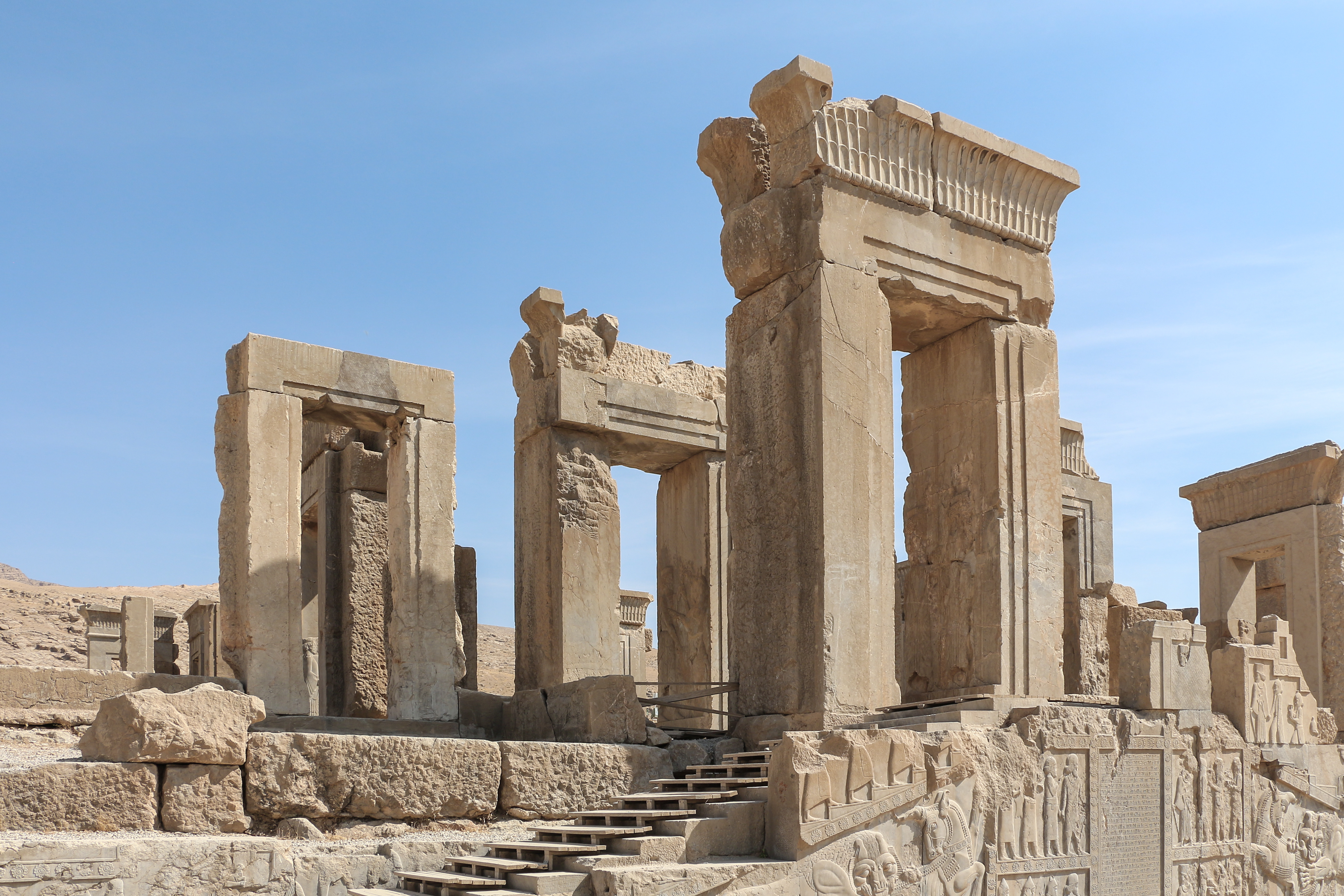 Palace of Darius I (Tachara), Persepolis, Iran